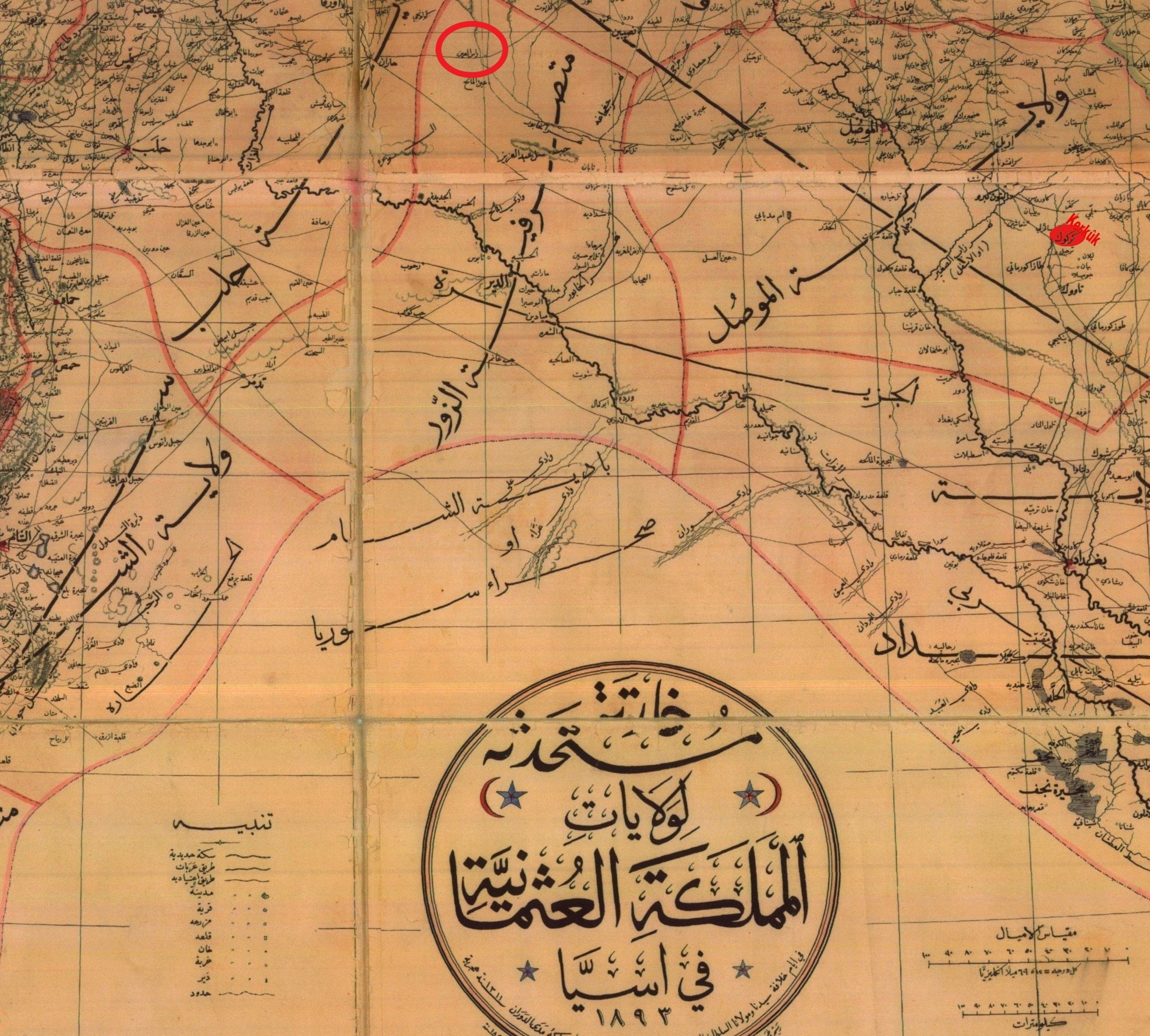 Ottoman map from 1893 showing Ras al-Ain in Arabic (رأس العين)